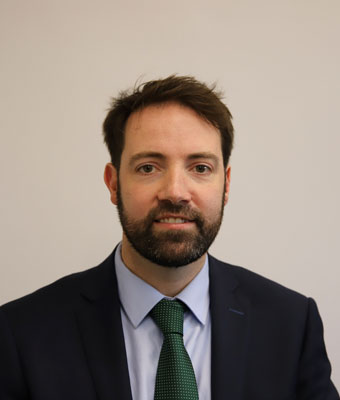 Irish politician Brian Leddin of the Green Party, taken in 2020.